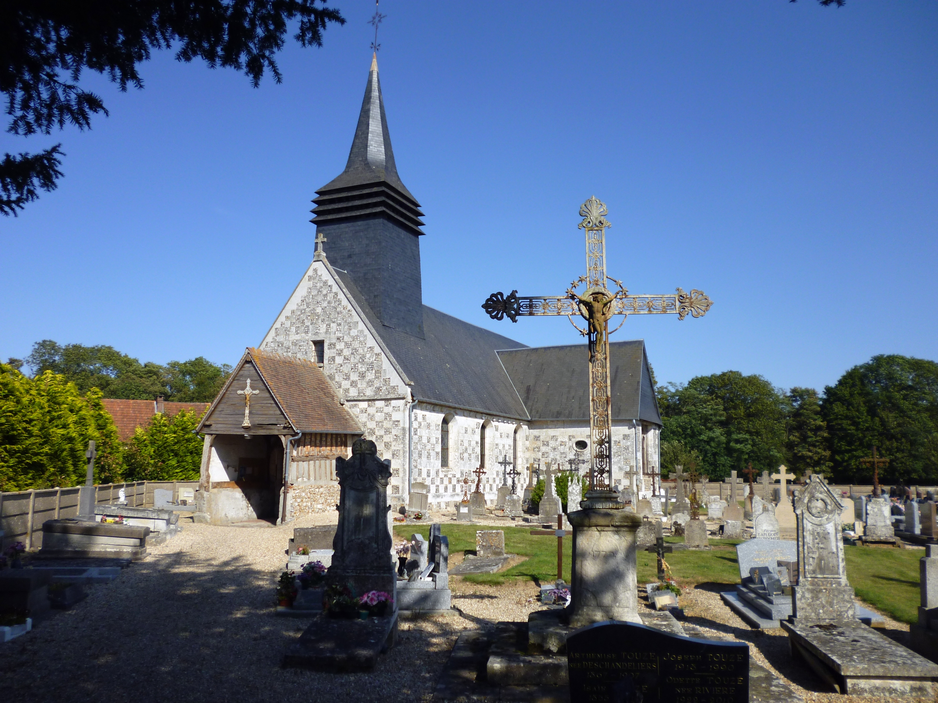 The church Sainte-Colombe (Columba of Sens) in Le Theil-Nolent (Eure, Haute-Normandie, France) was built in the 16th century. Parts of it were changed in 18th century.